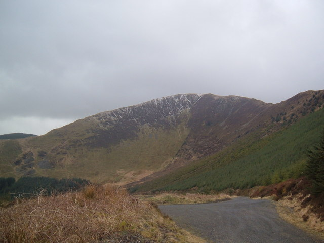 Tarren y Gesail, near to Corris, Gwynedd, Great Britain. Looking up to the east face of Tarren y Gesail from the head of Cwm Cadian